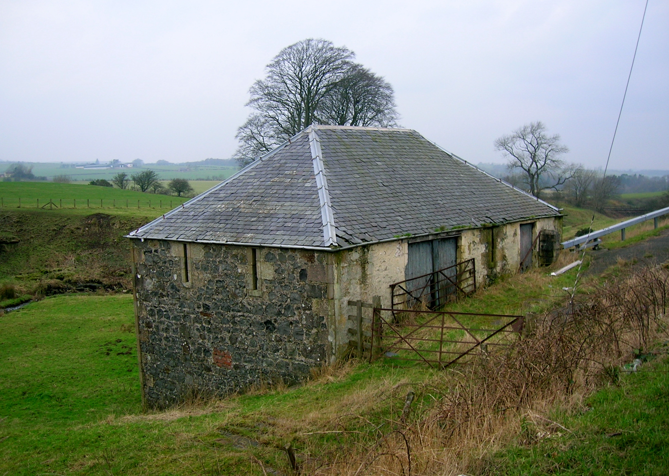 Borland old Sawmill, New Cumnock, East Ayrshire, Scotland.